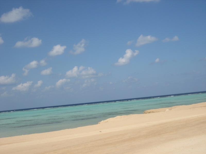 Turquoise Red Sea Waves